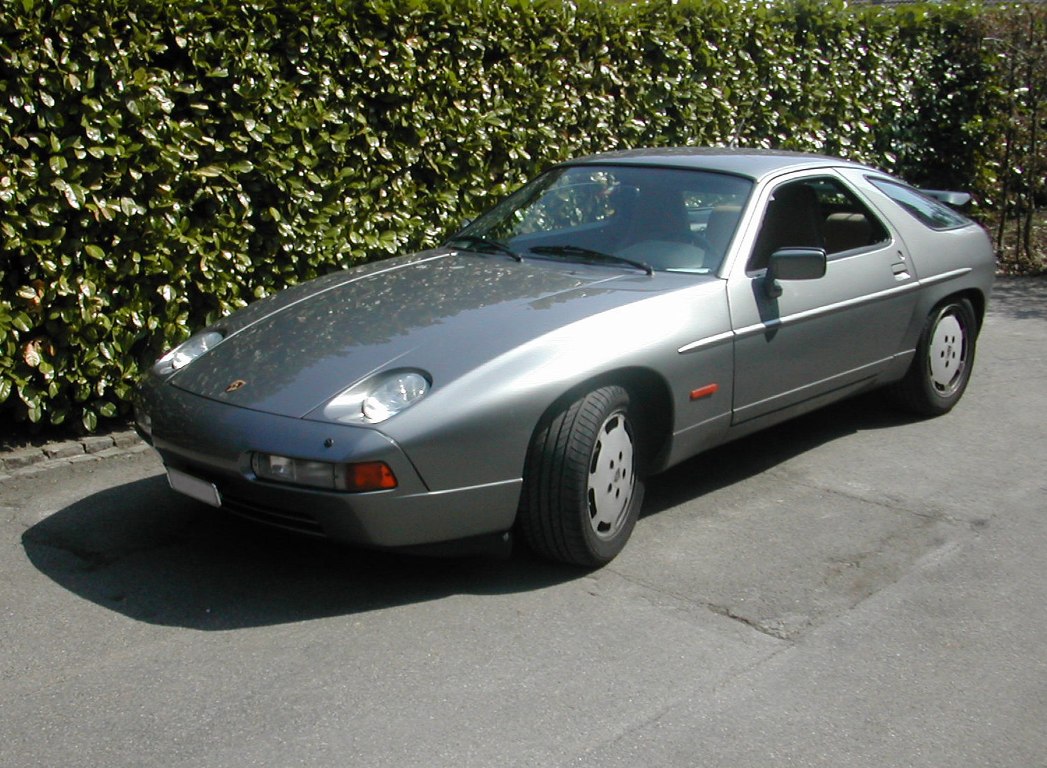 1990 Porsche 928 S4, picture taken in Switzerland.